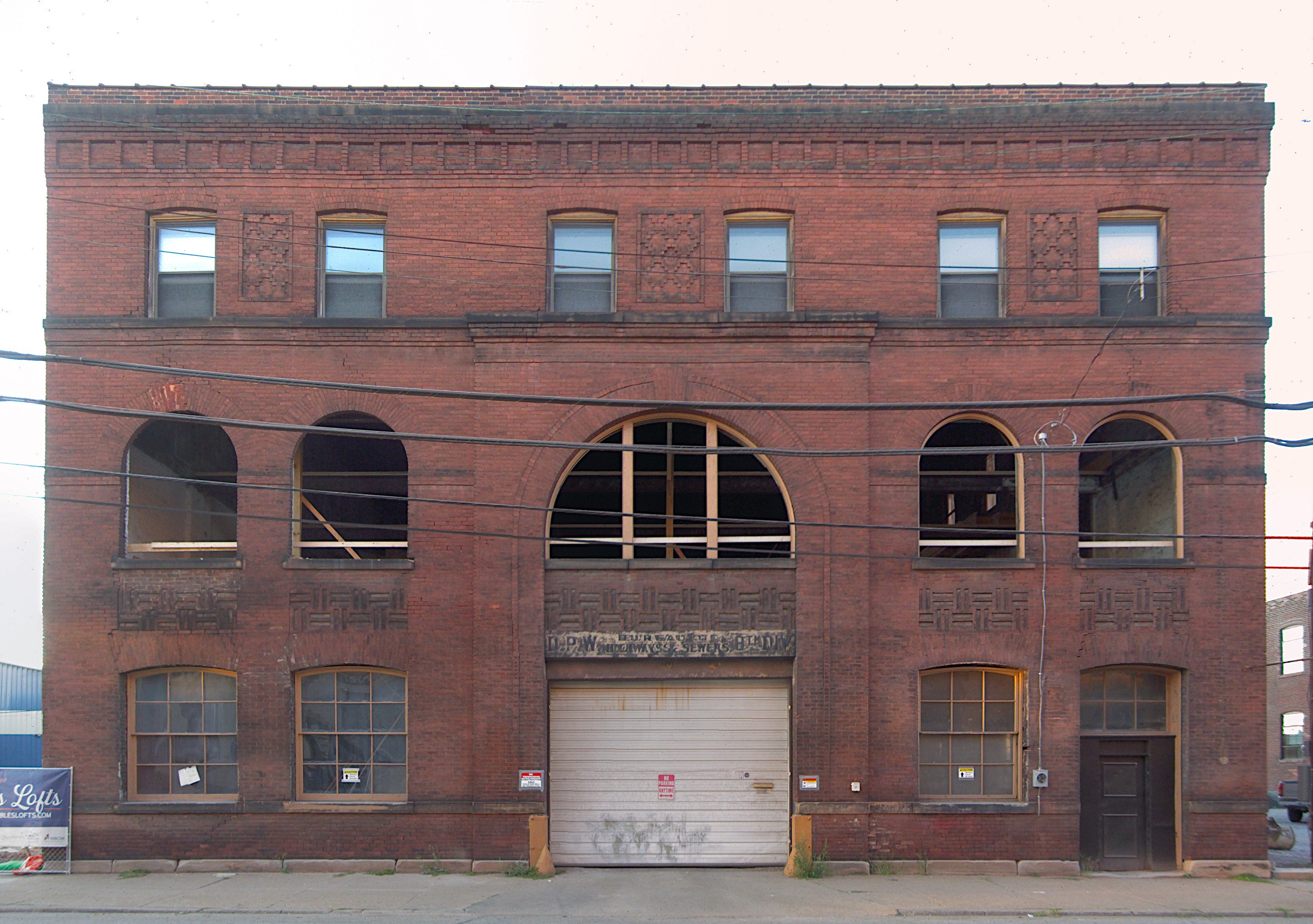 Allegheny City Stables in process of conversion to loft apartments, September 2019